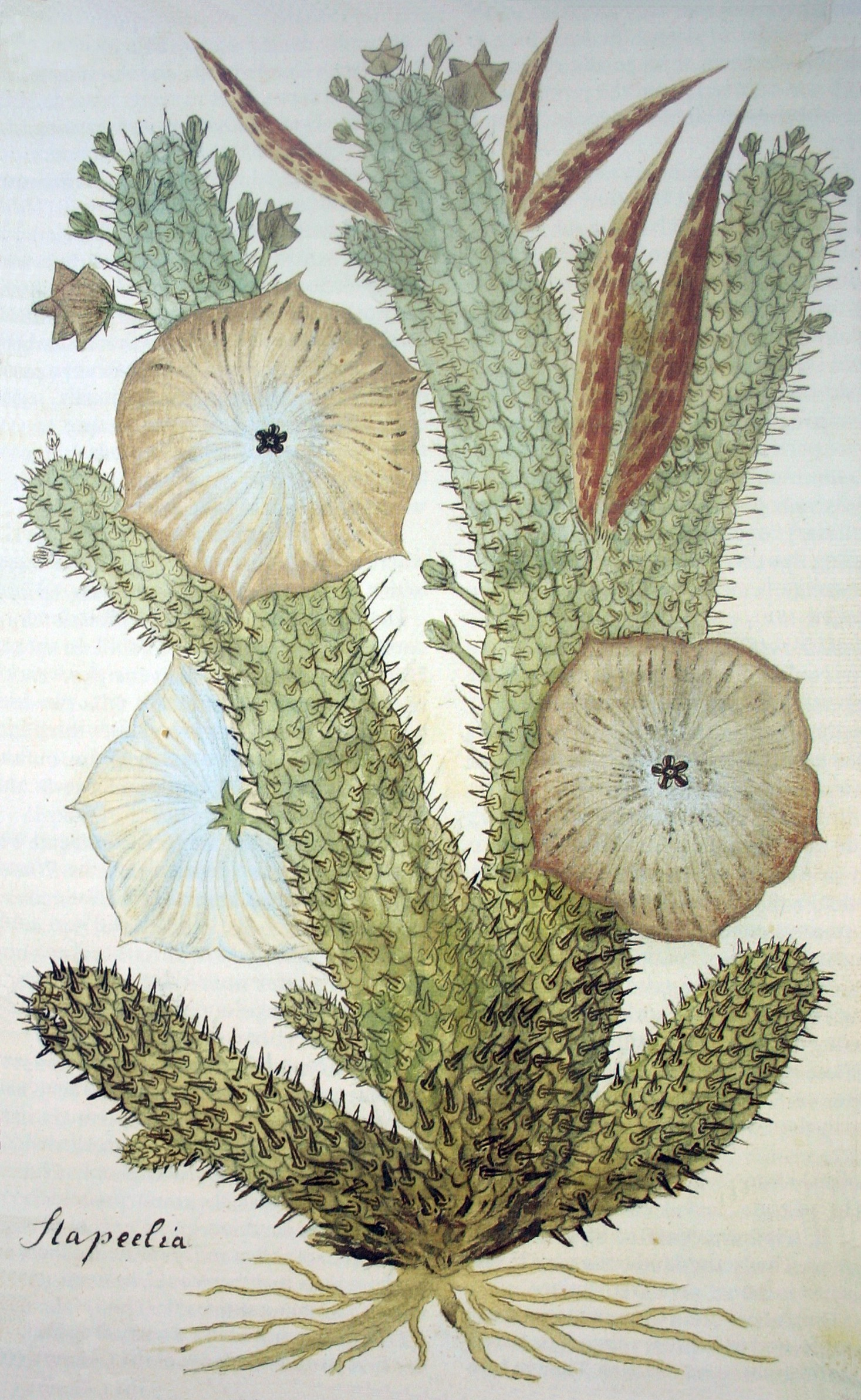 Painting of Hoodia gordonii by Robert Jacob Gordon - cf File:Francis Masson04.jpg